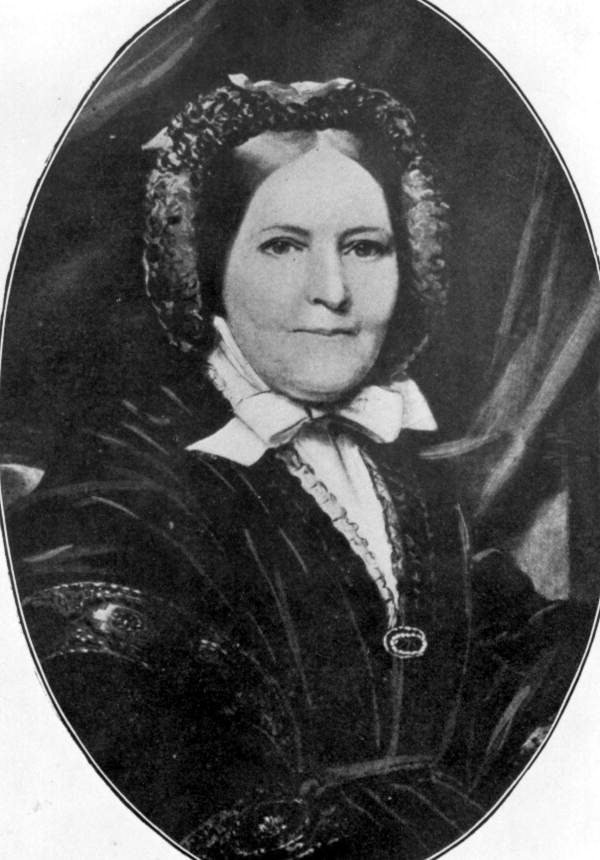 Portrait of the First Lady of Florida Peggy O'Neale Eaton